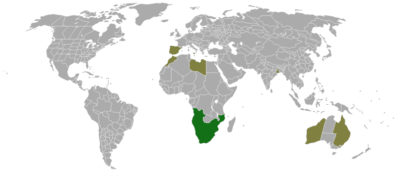 Acacia karroo range map created with a blank map from the Commons, info from ILDIS LegumeWeb and the GIMP. More detail from USDA-GRIN [1] Dark green: natural occurrence. Dark yellow: introduced.